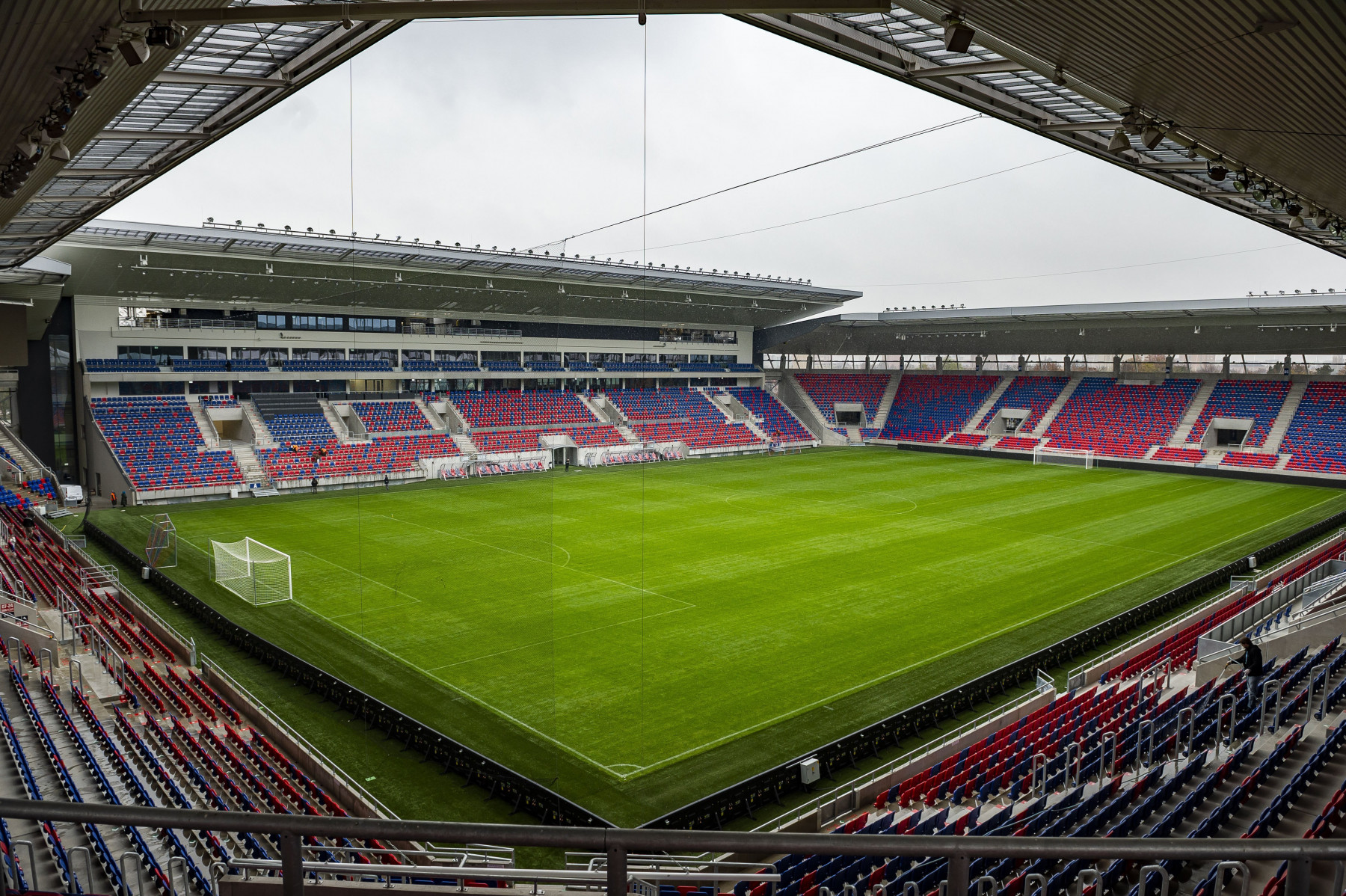 Inside the newly built stadium of the Nemzeti Bajnokság I club MOL Vidi FC.